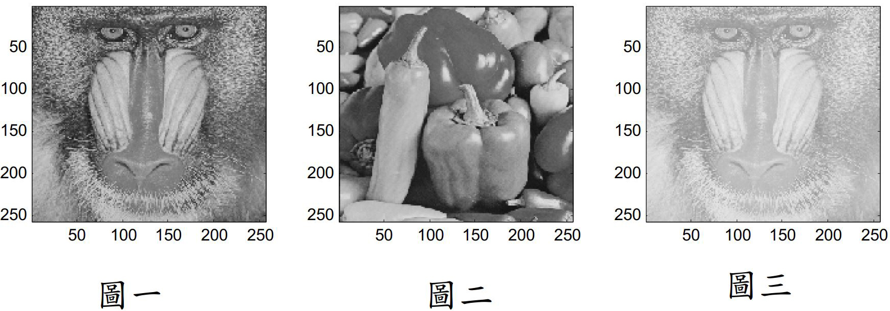 NRMSE comparision - same photo with different shadow effect